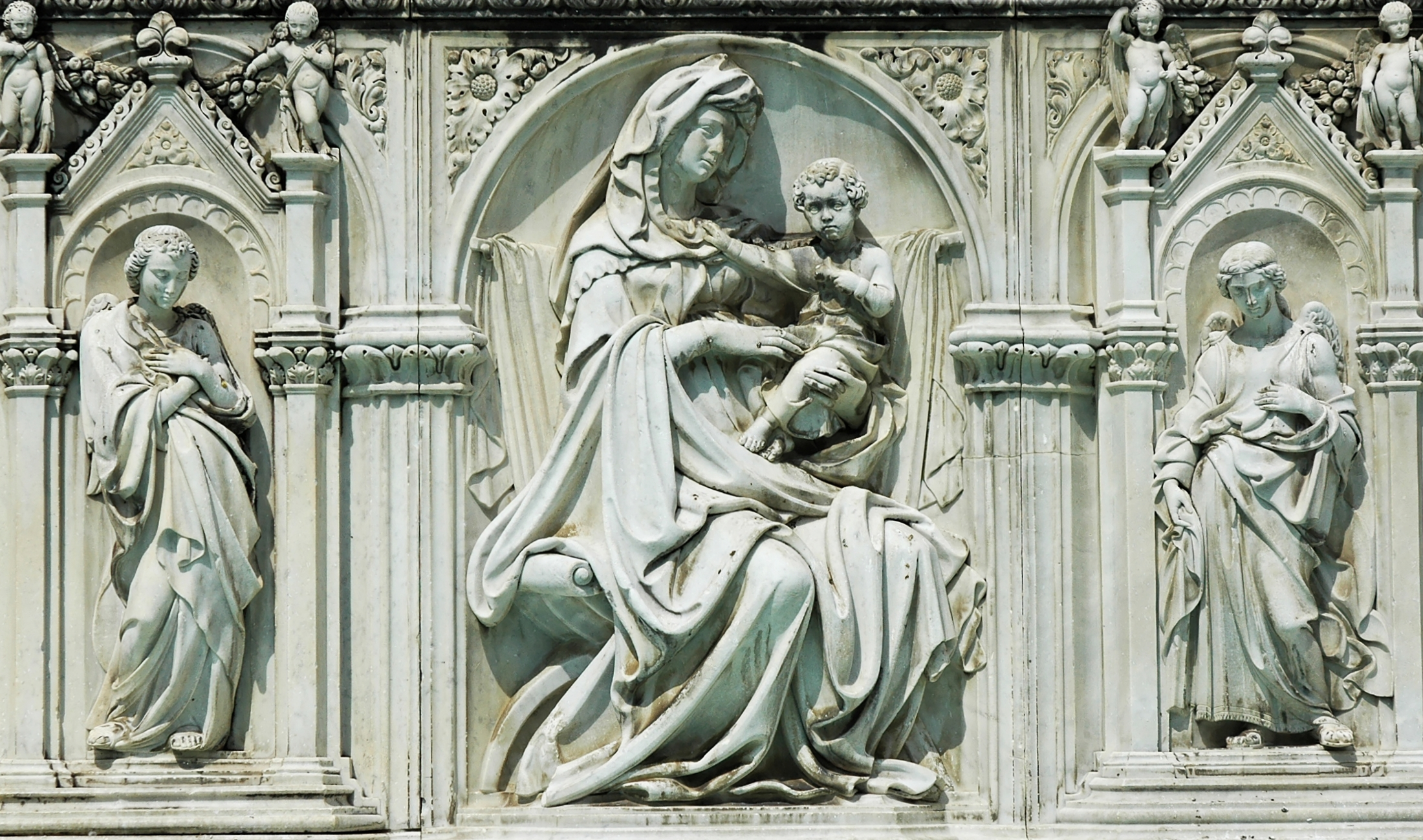 Madonna and Child with two angels. Panel of the Fonte Gaia (Fountain of Joy), piazza del Campo, Siena. The original was the work of Jacopo della Quercia (ca. 1367–1438). Badly deteriorated by long exposure to the elements, the fountain was entirely replaced in 1868 by a copy made by neo-Renaissance sculptor Tito Sarrocchi (1824–1900).